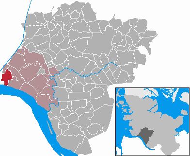 This map shows the area of the municipality Büttel in the Kreis (district) Steinburg, Schleswig-Holstein, Germany.